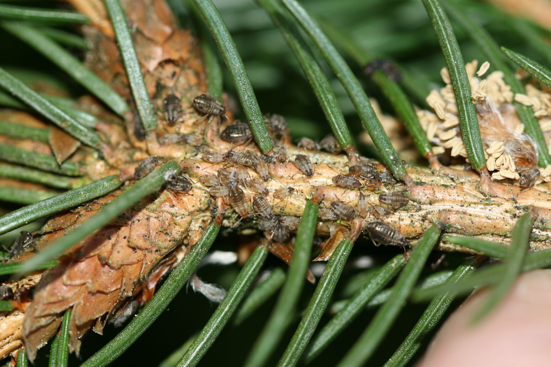 Description: Honeydew producer on Picea abies: either Cinara pruinosa or Cinara stroyani (difficult to differentiate)Swabian Forest, Baden-Wuerttemberg, Germany